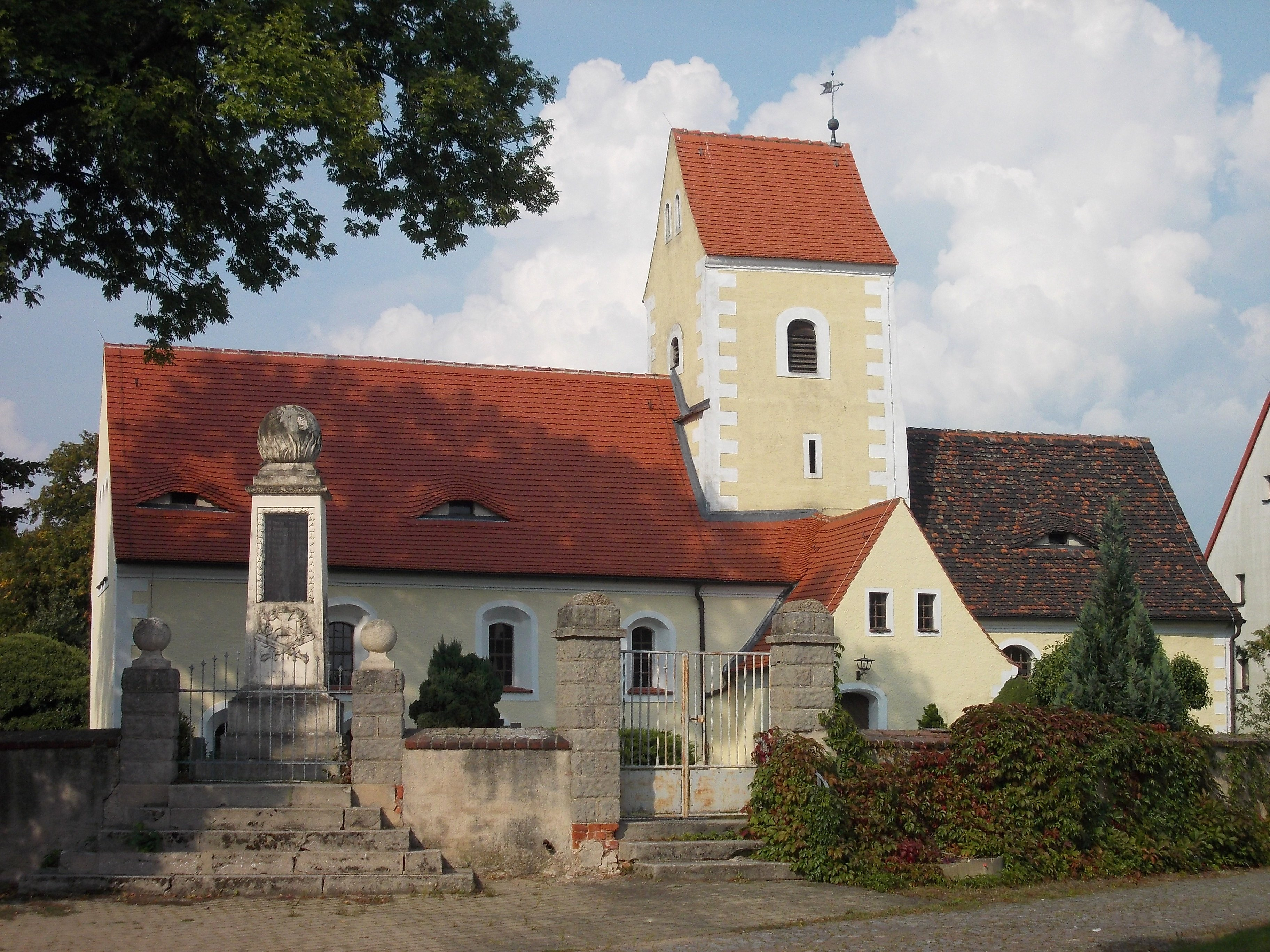 Welsau church (Torgau, Nordsachsen district, Saxony)